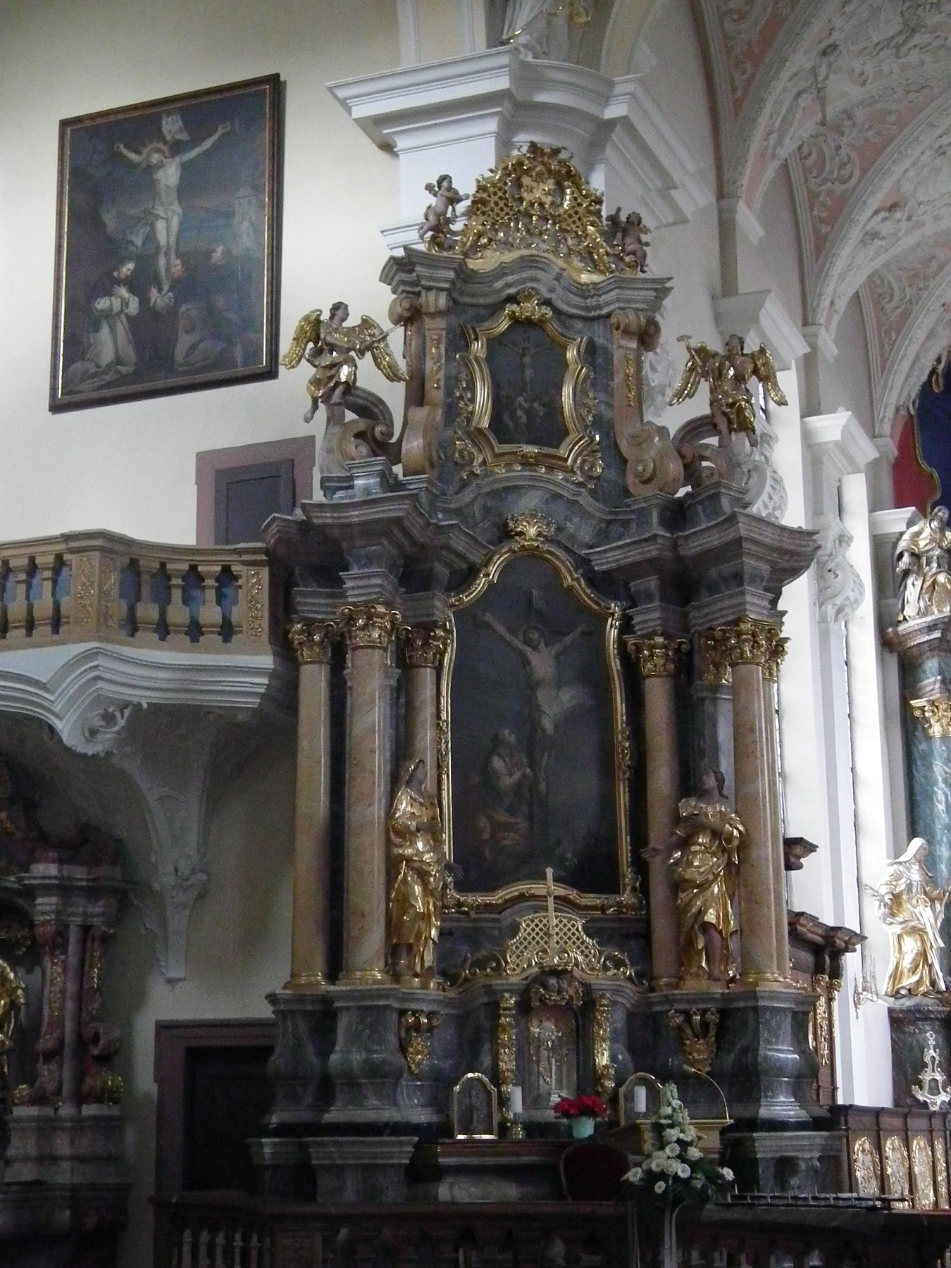 Church of the Holy Cross Native namePfarrkirche Heilig KreuzLocationGerlachsheim, Baden-Württemberg, GermanyCoordinates49° 34′ 47.32″ N, 9° 43′ 13.08″ E